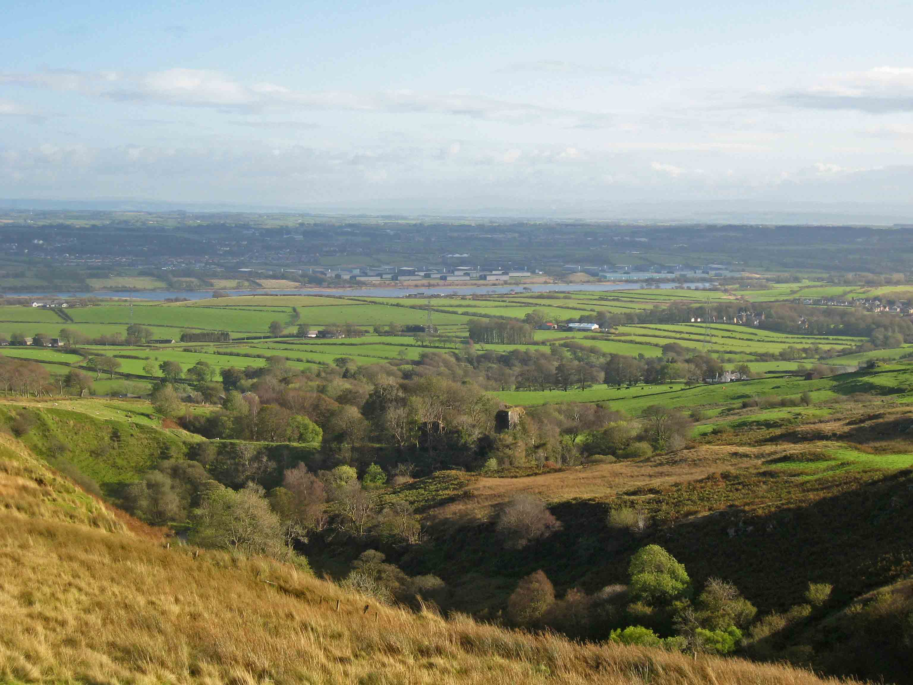 Glen Garnock and Glengarnock Castle, looking south from Burnt Hill towards Kilbirnie Loch.